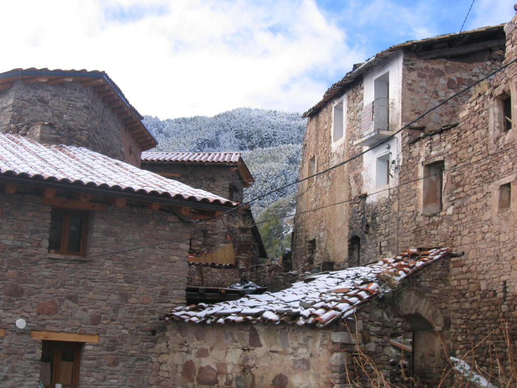 view of Mencui / Spain